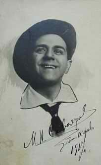 "Le Roi de Excentrique" - russian poet, composer, chansonnier Mikhail Savoiarov (postcard ~ 1916)